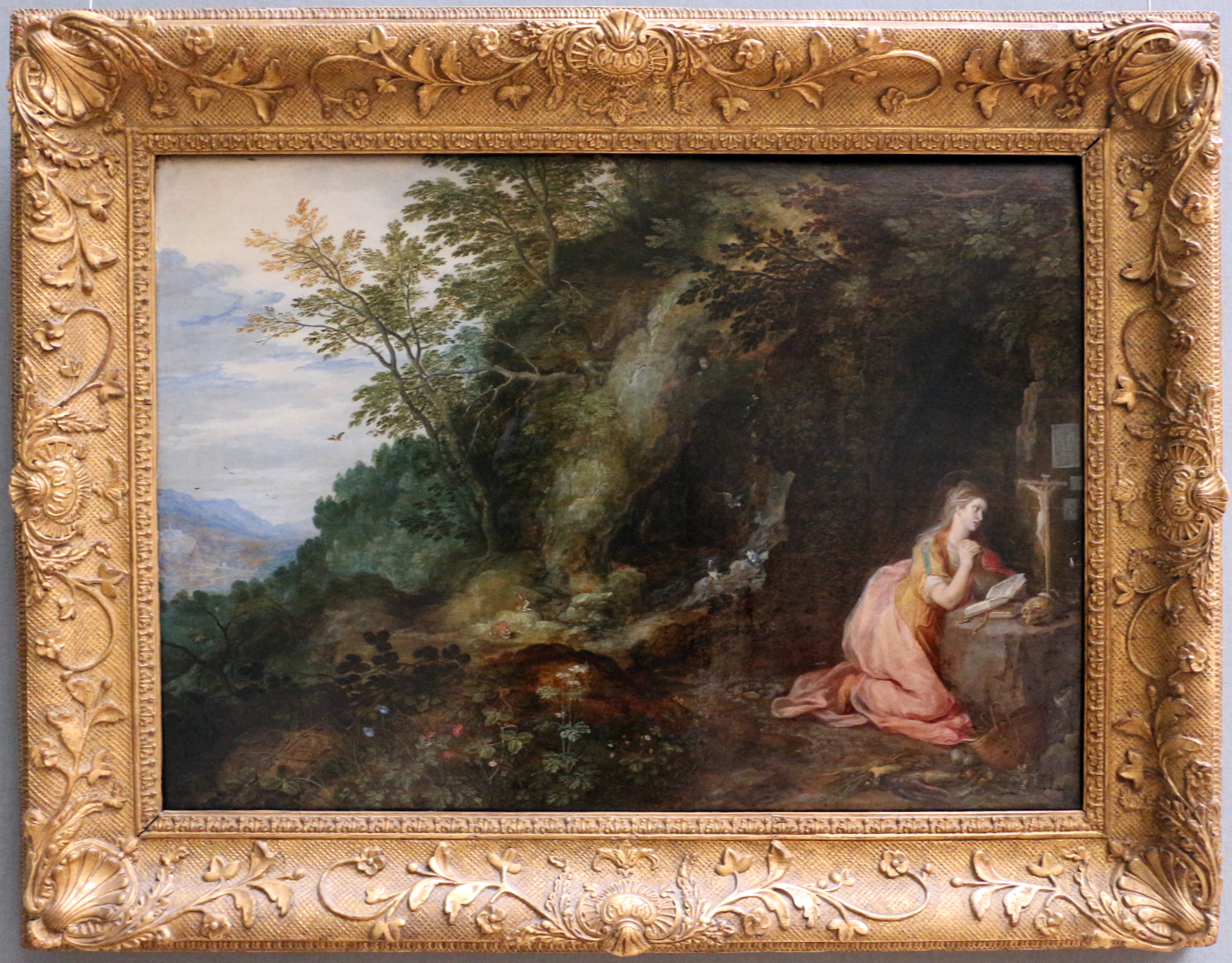 paintings in the Royal Museums of Fine Arts of Belgium